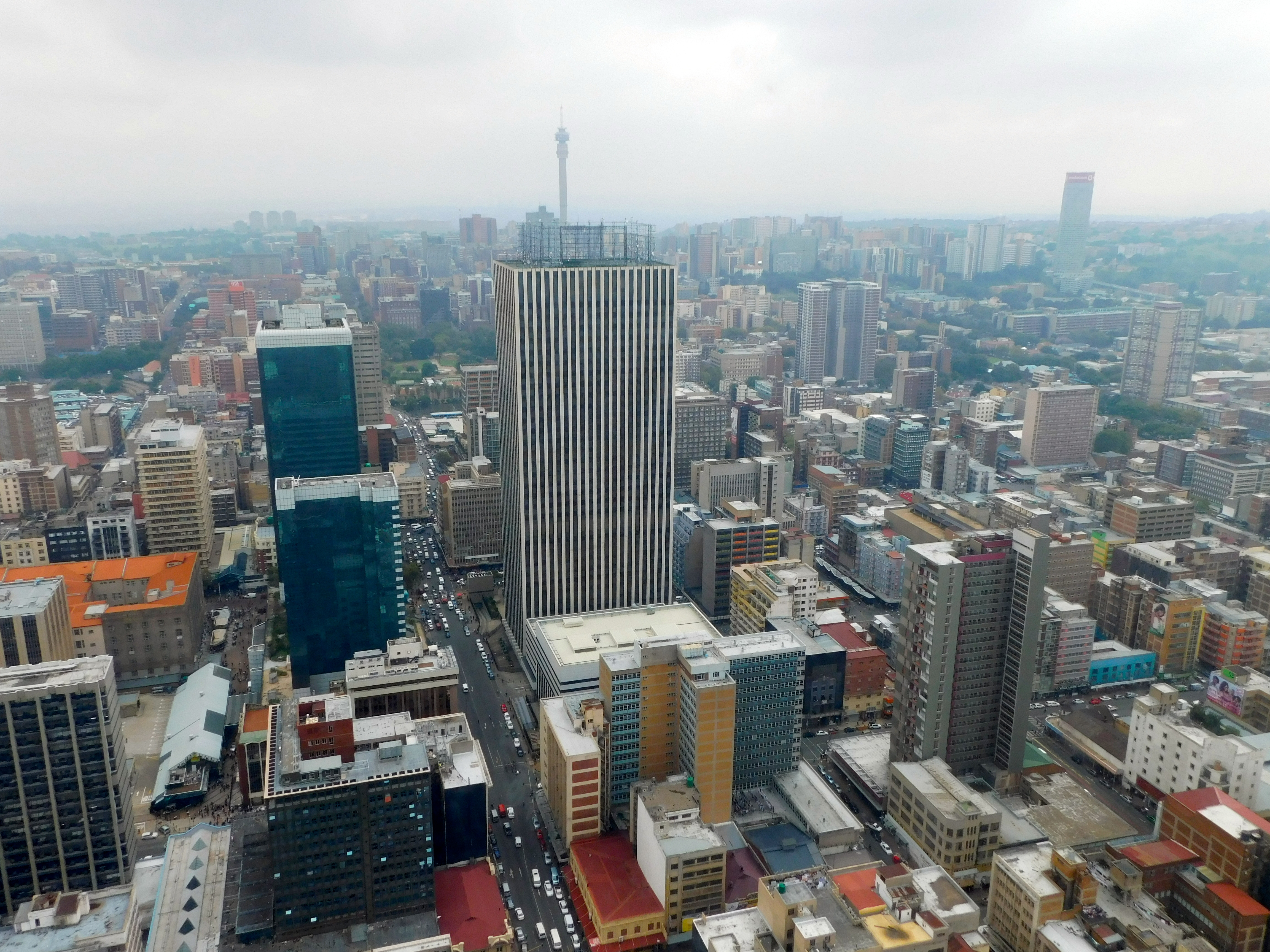 View from the Carlton Centre, Africa's tallest building. Johannesburg, Gauteng, South Africa.